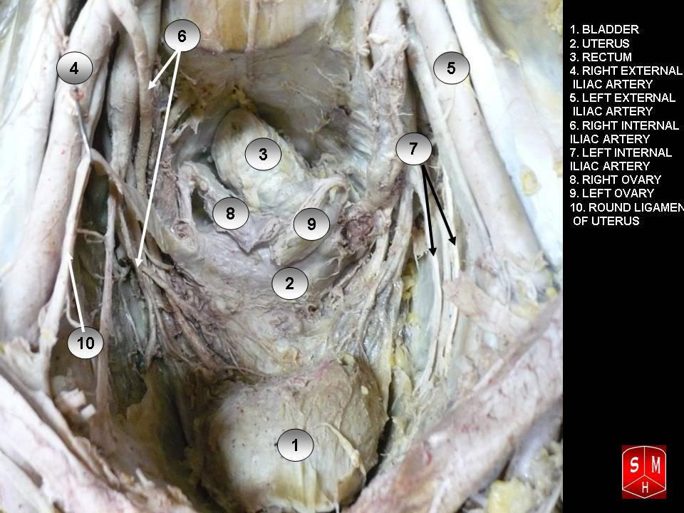 Anatomical dissection